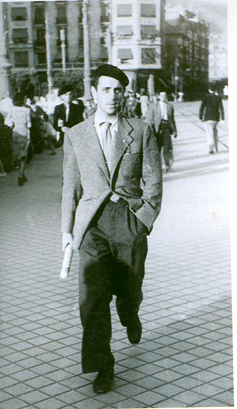 Fenando Artola "Bordari" winter